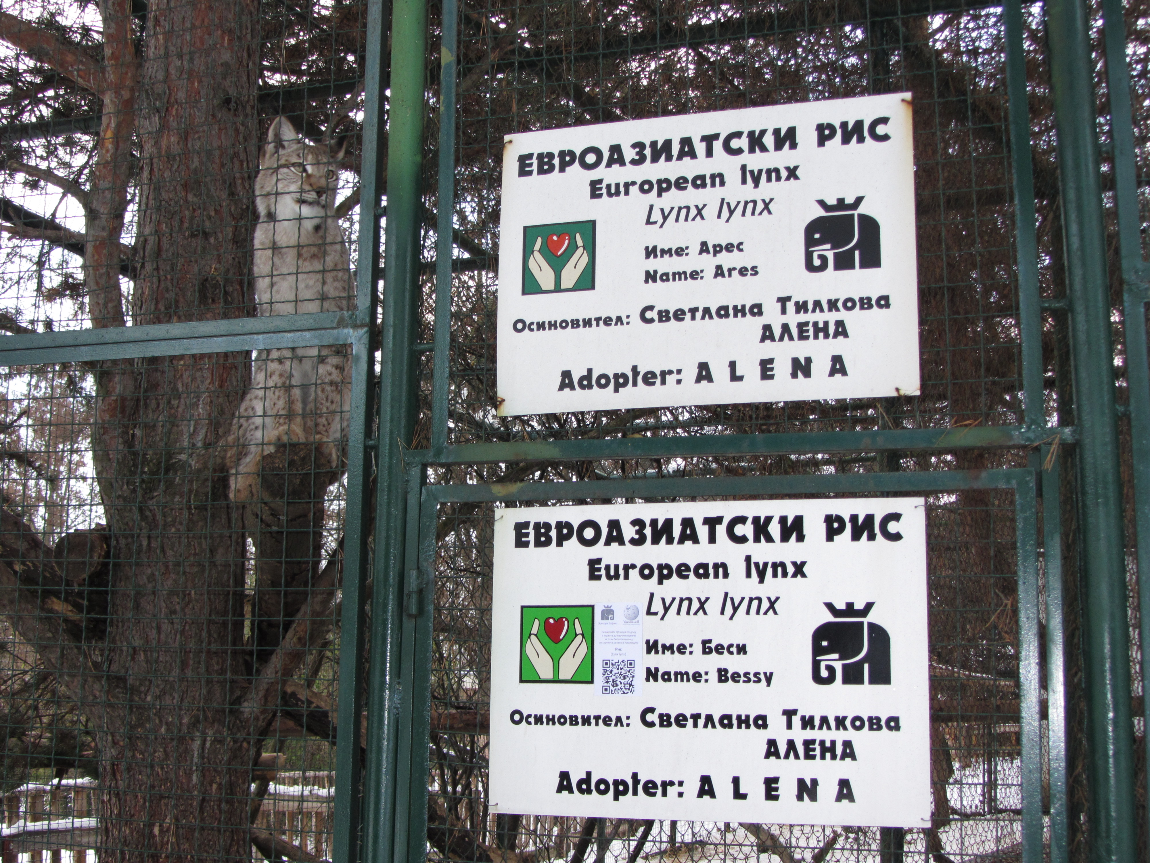 The first QRpedia code sticker in Sofia Zoo